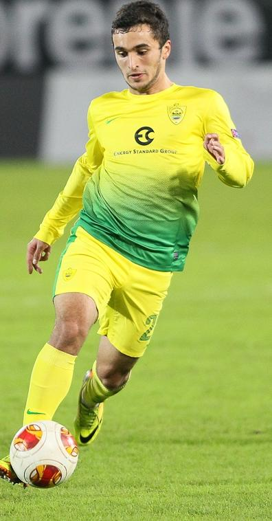 Serder Serderov playing for FC Anzhi Makhachkala in 2013.